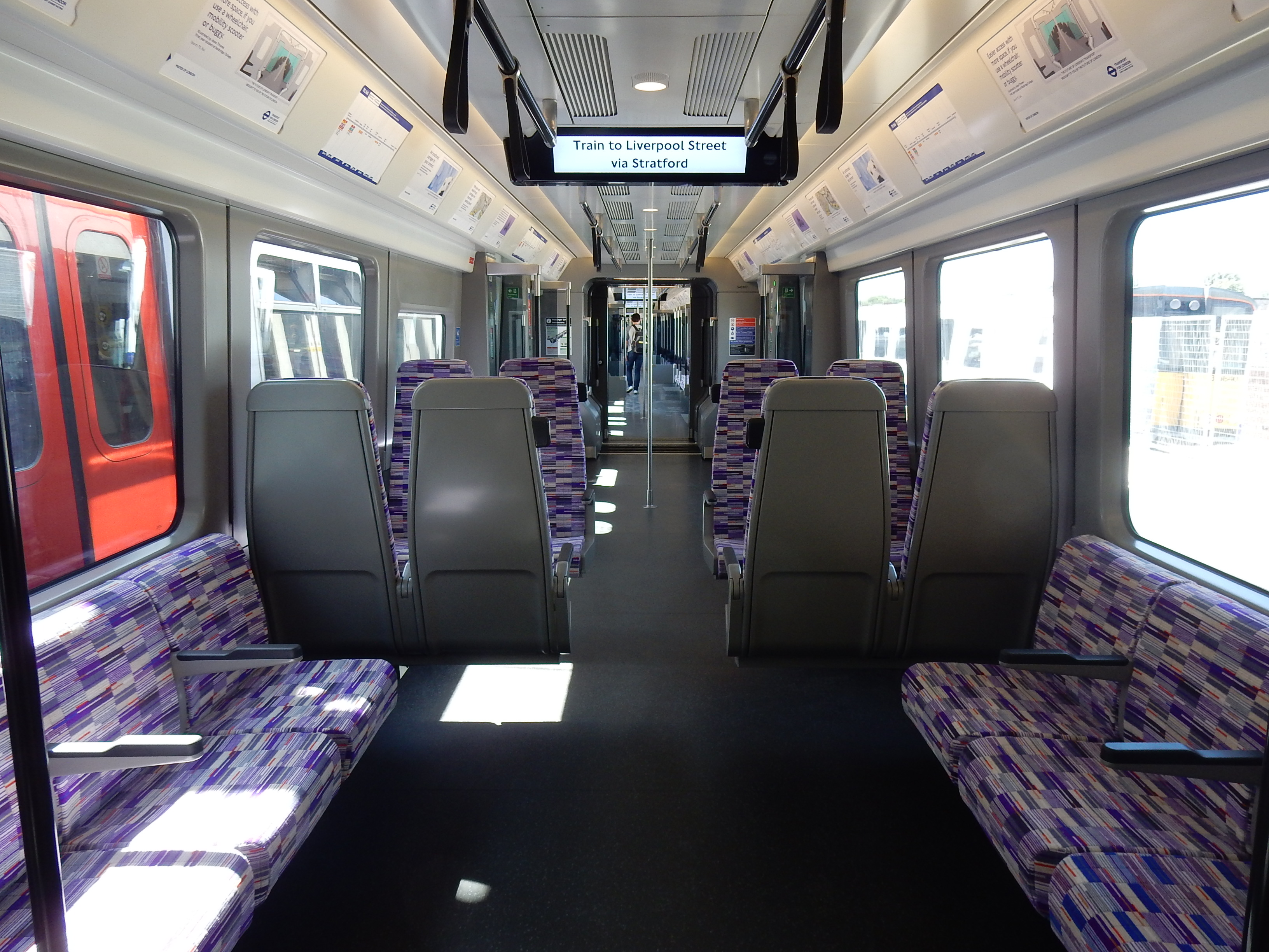 Class 345 unit 345007 interior, as of July 2017.